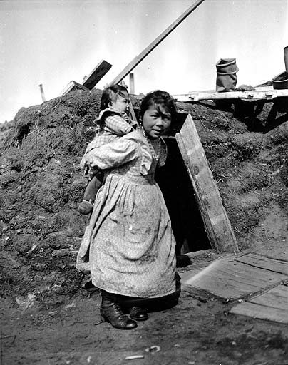 From John Cobb field notebook: Native children, Igegak Subjects (LCTGM): Eskimos--Children--Alaska--Karluk; Children--Alaska--Karluk Subjects (LCSH): Eskimo children--Alaska--Karluk; Eskimo children--Clothing and dress; Girls--Alaska--Karluk